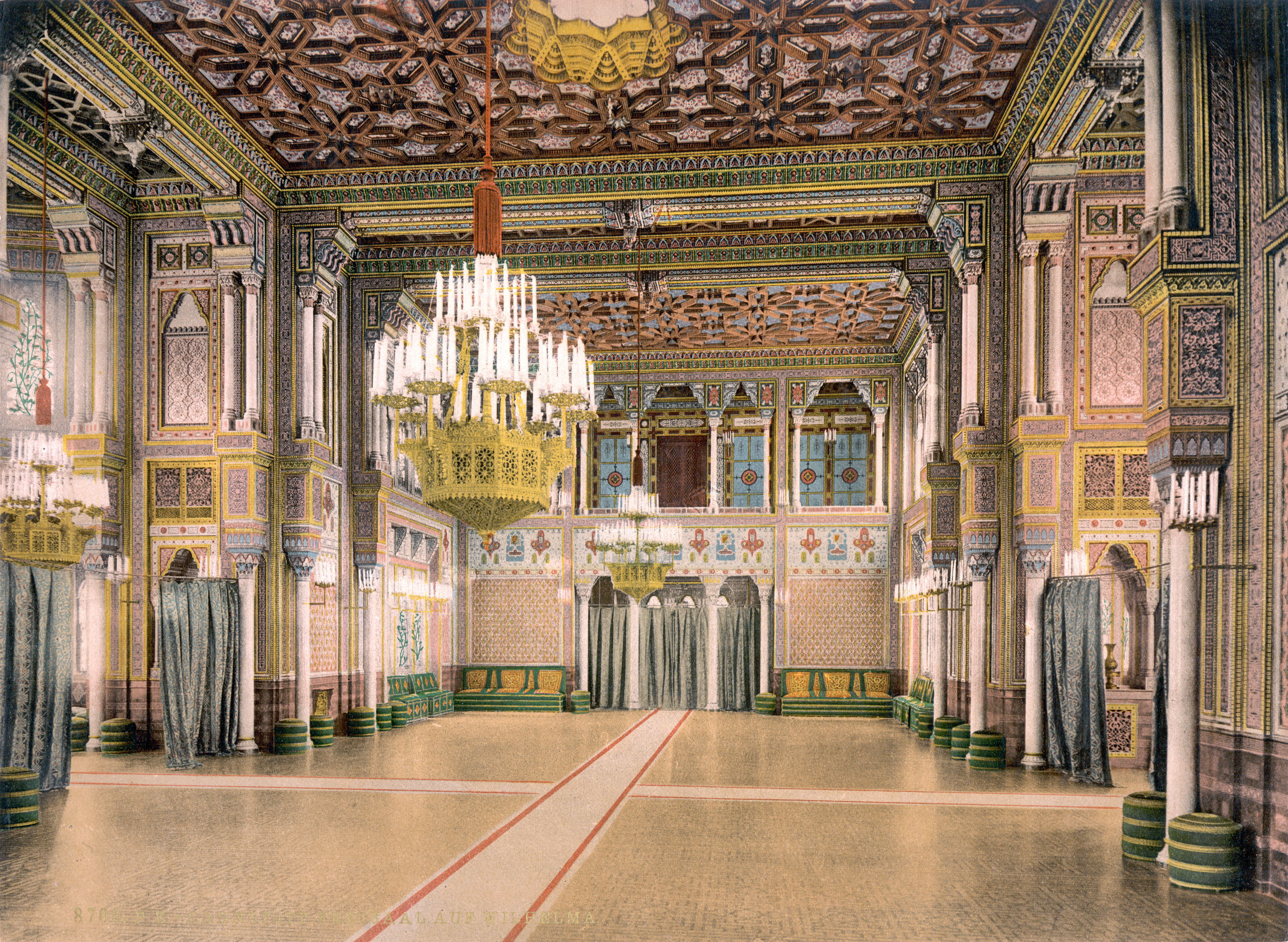 Banqueting Hall in Wilhelma, Cannstatt (i.e., Bad Cannstatt), Wurtemburg, Germany